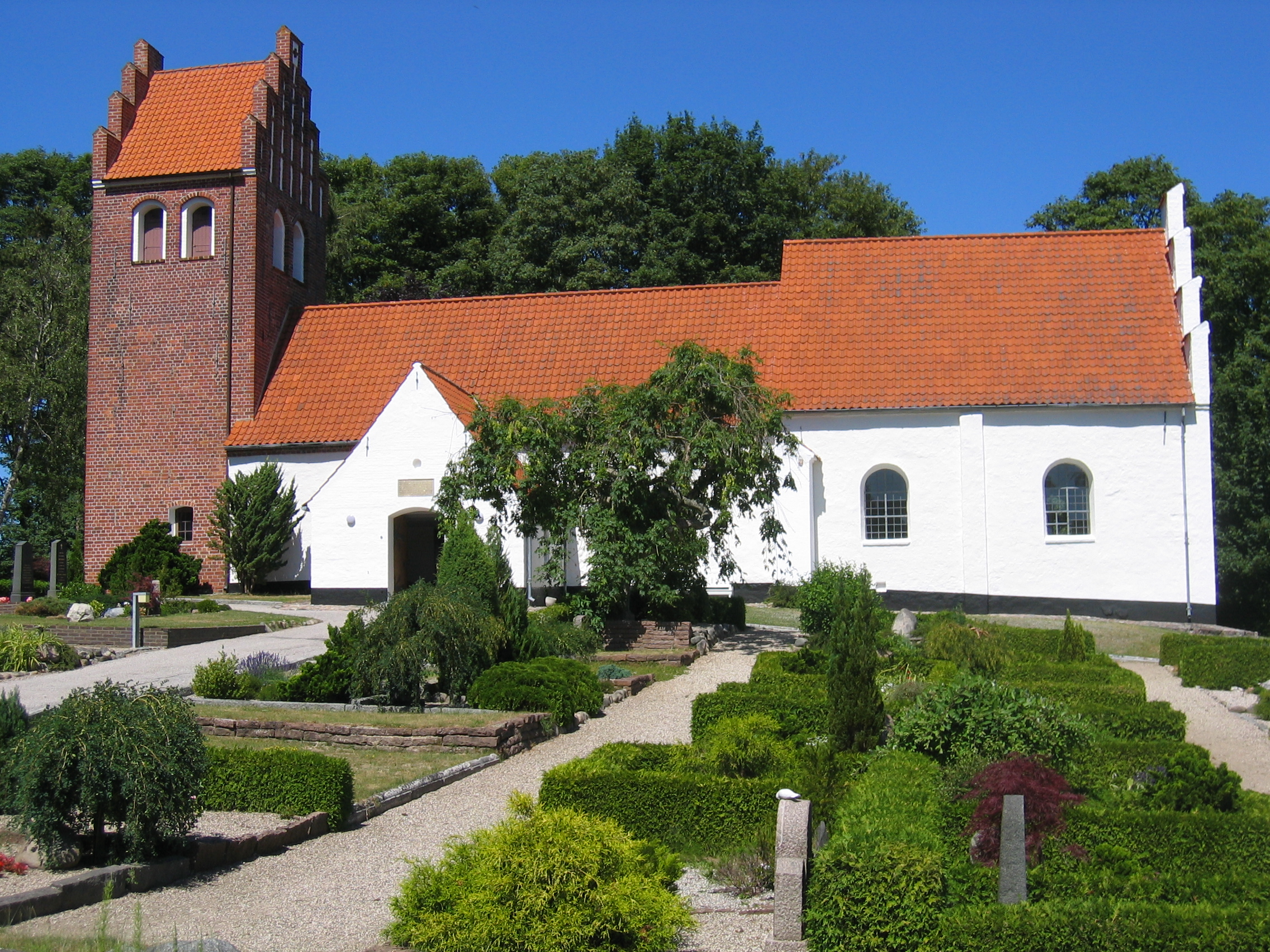 Tibirke Church, Tibirke parish, Holbo Herred, Frederiksborg County, Denmark.